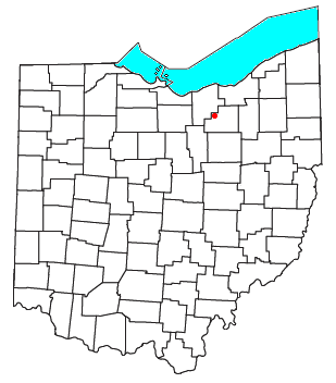 Locator map of the unincorporated community of Litchfield in Medina County, Ohio, United States.